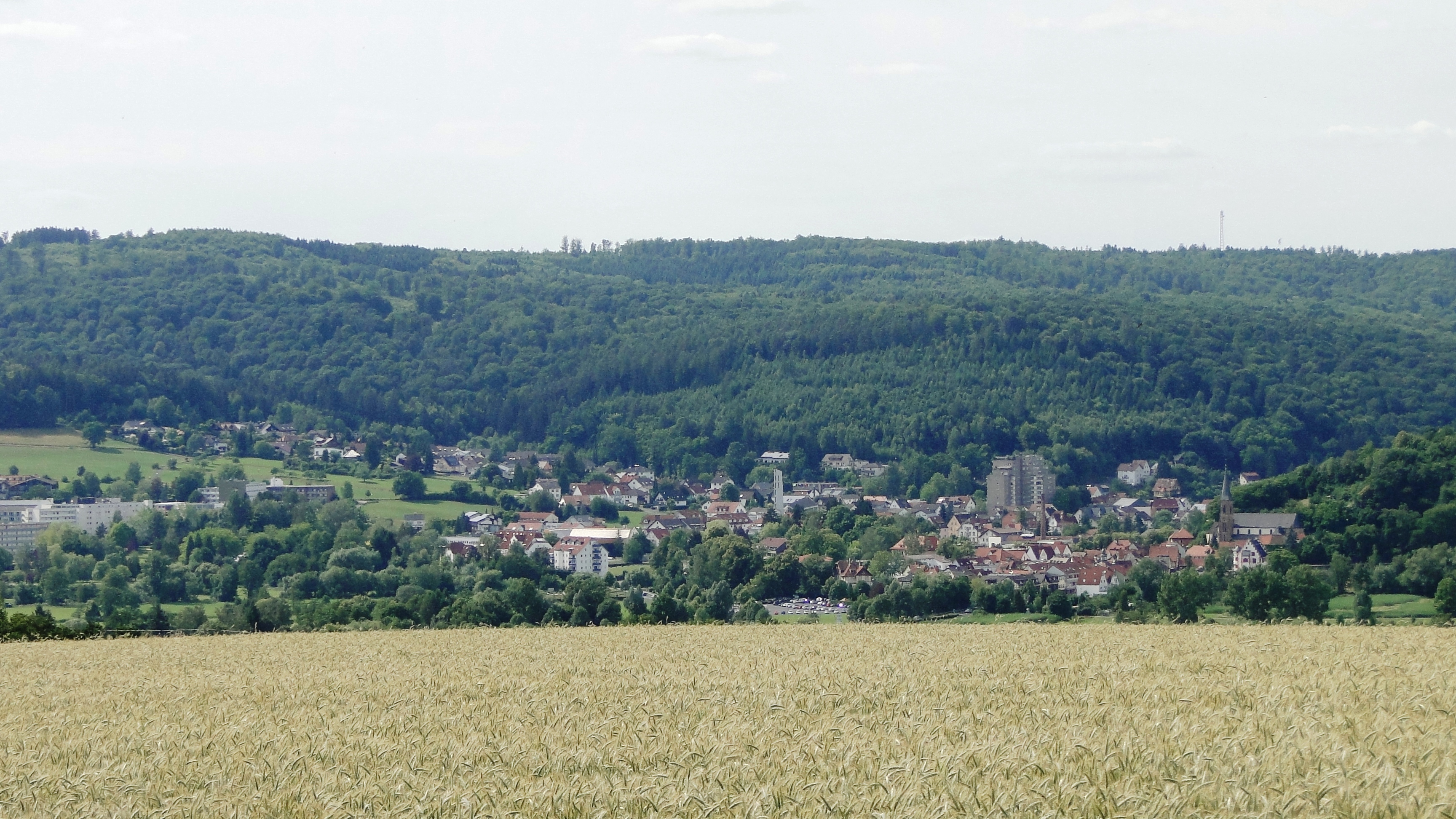 a view of Bad Soden, Ortsteil of Bad Soden-Salmünster (Hesse, Germany) from the southeast